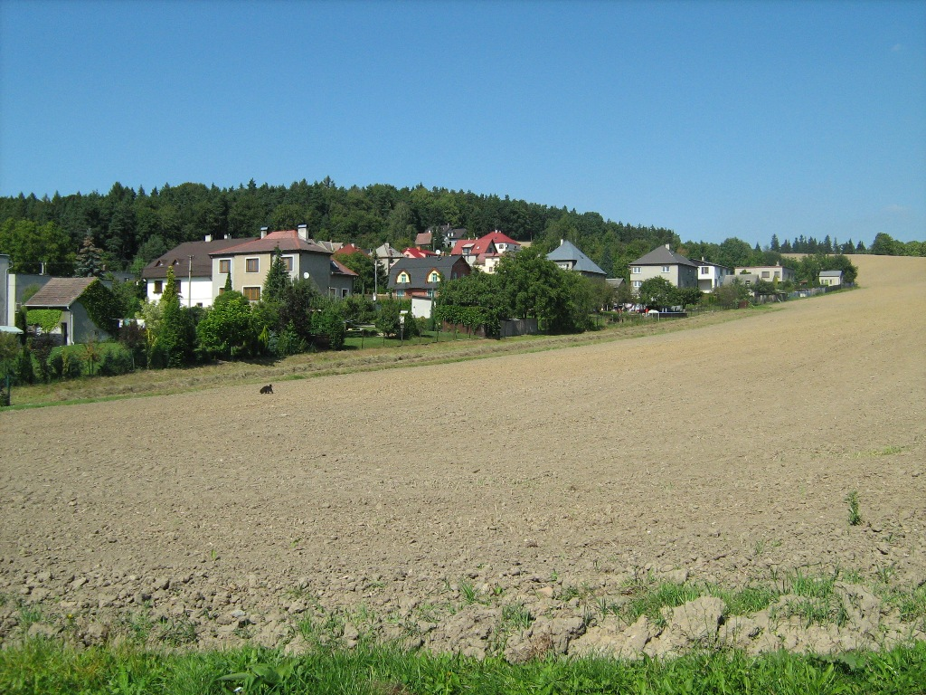 Village Lhotka, Ostrava, Cz